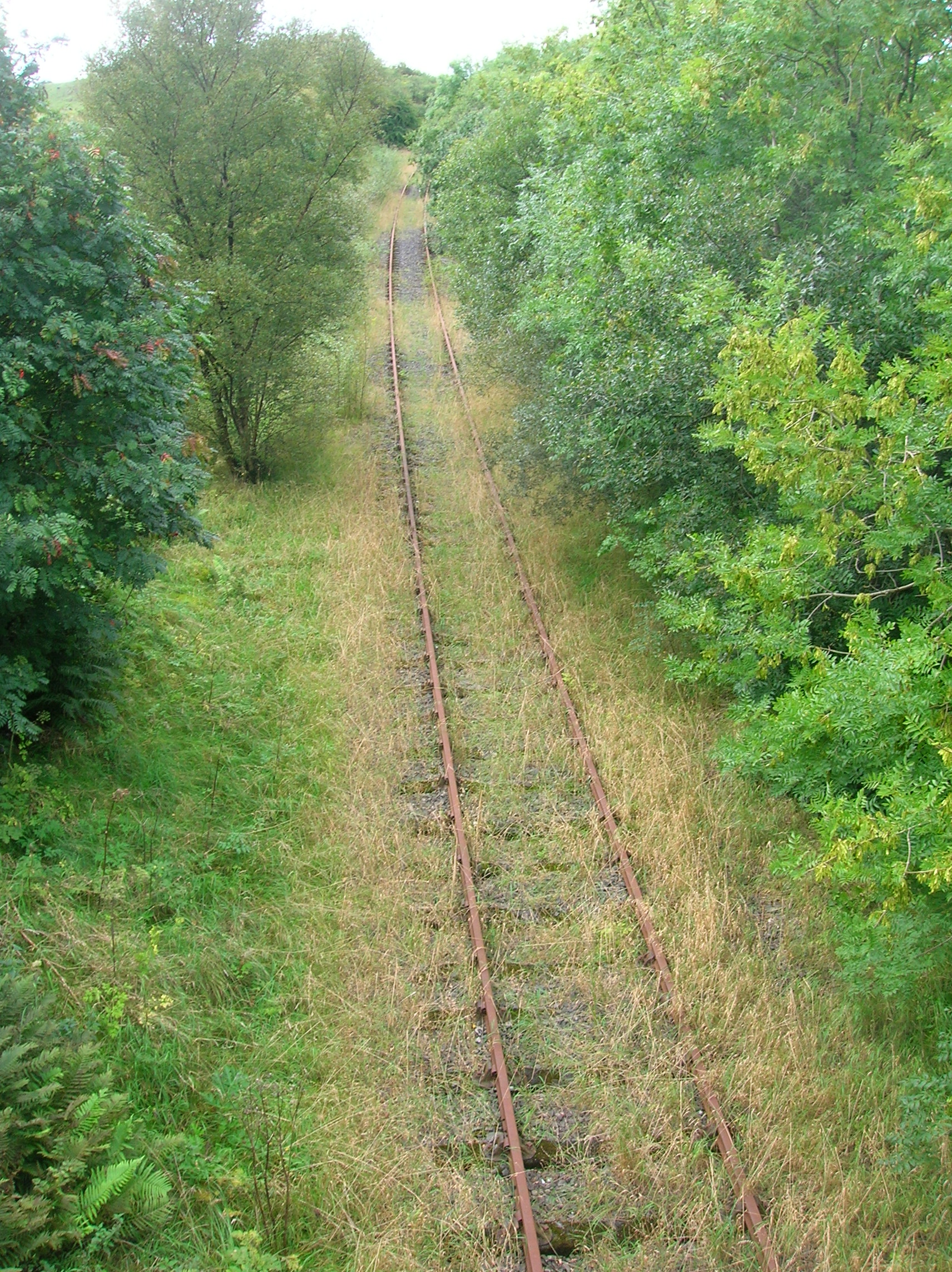 The railway at Gree bridge, Lugton, Ayrshire, Scotland